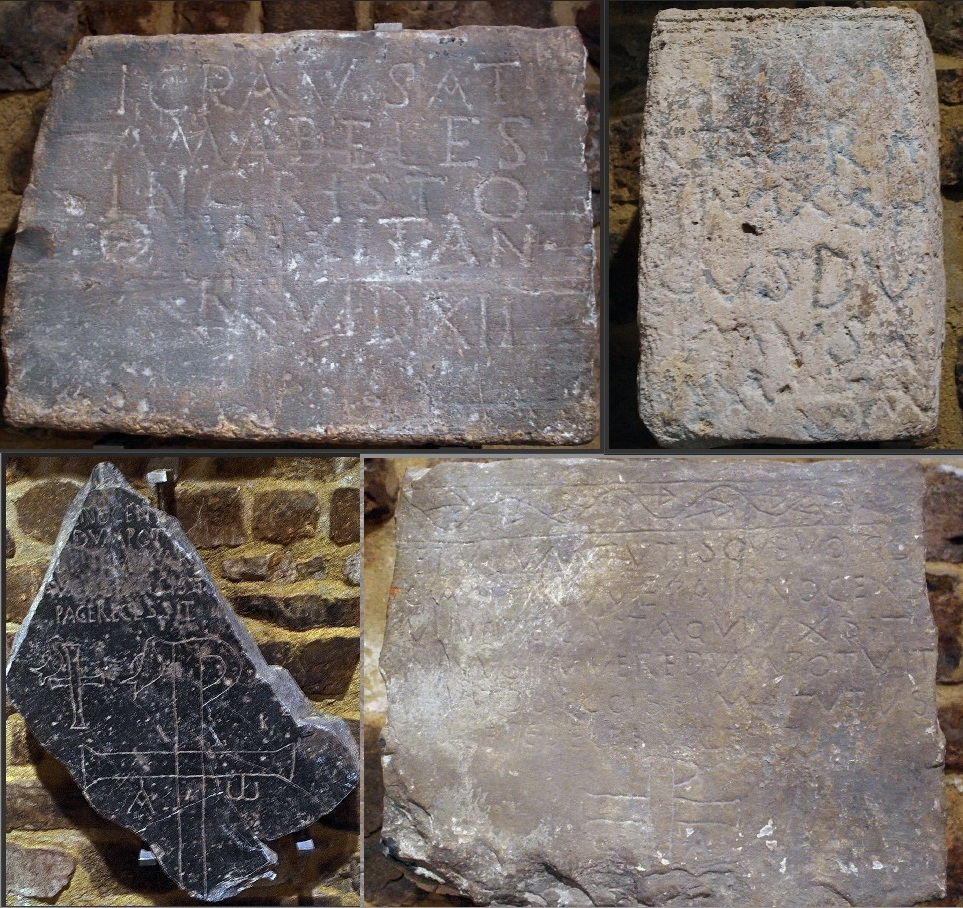 Collage of four early Christian grave stones from the 5th and 6th century in the lapidarium ("stone collection") in the East Crypt of the Basilica of Saint Servatius in Maastricht, the Netherlands.